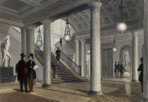 Lobby of the Athenaeum Club in London